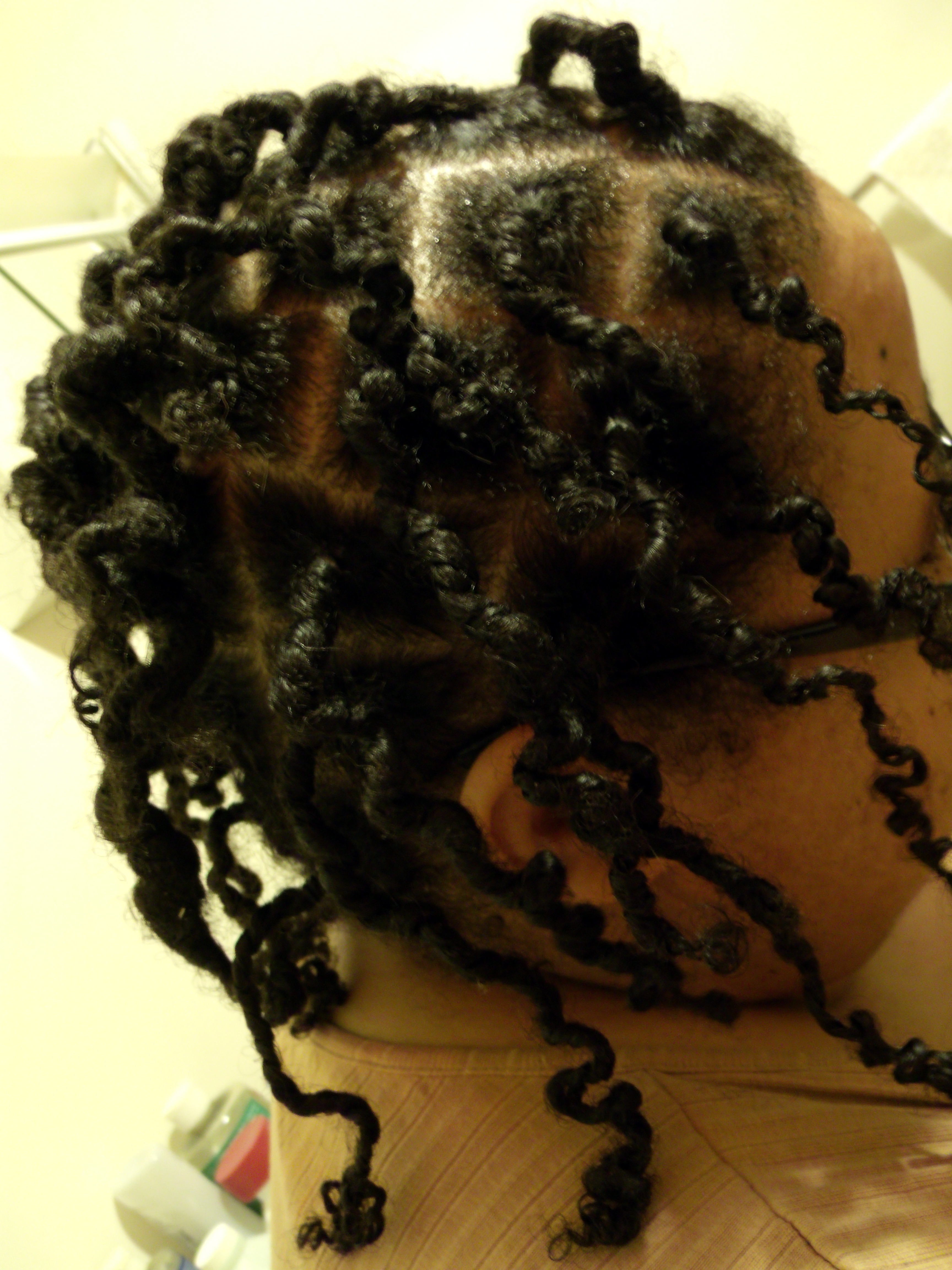 Twist-started dreadlocks of an African-American person, immediately after being unwound from the Bantu knots they were 'trained' in for a month; the locks subsequently thickened as matting progressed